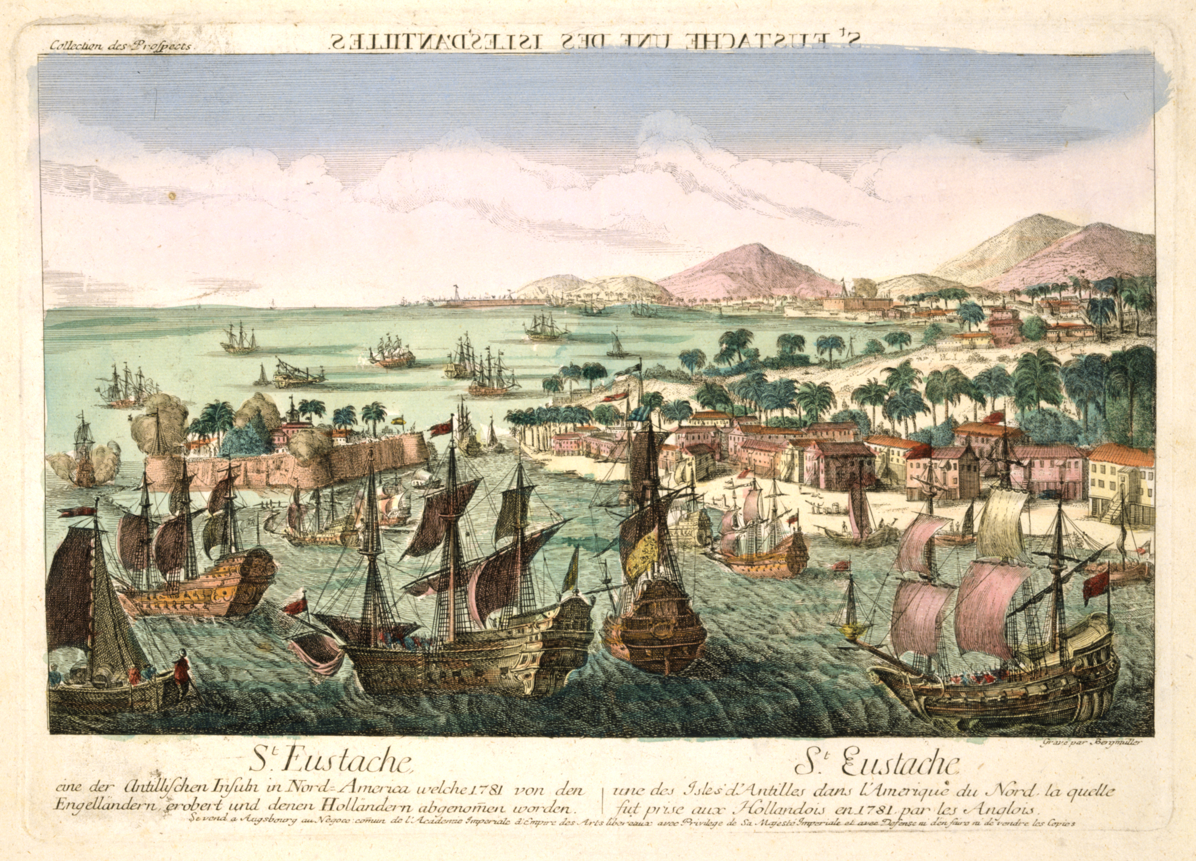 German print color of the island of St. Eustatius. Text in French and German. The shape of the vessels suggests the resumption of an older image, probably from the late seventeenth century. As a peep show card it shows the header in mirror writing: The island of St. Eustatius taken by the English fleet in February 1781. The island was pillaged by the troops of George Rodney